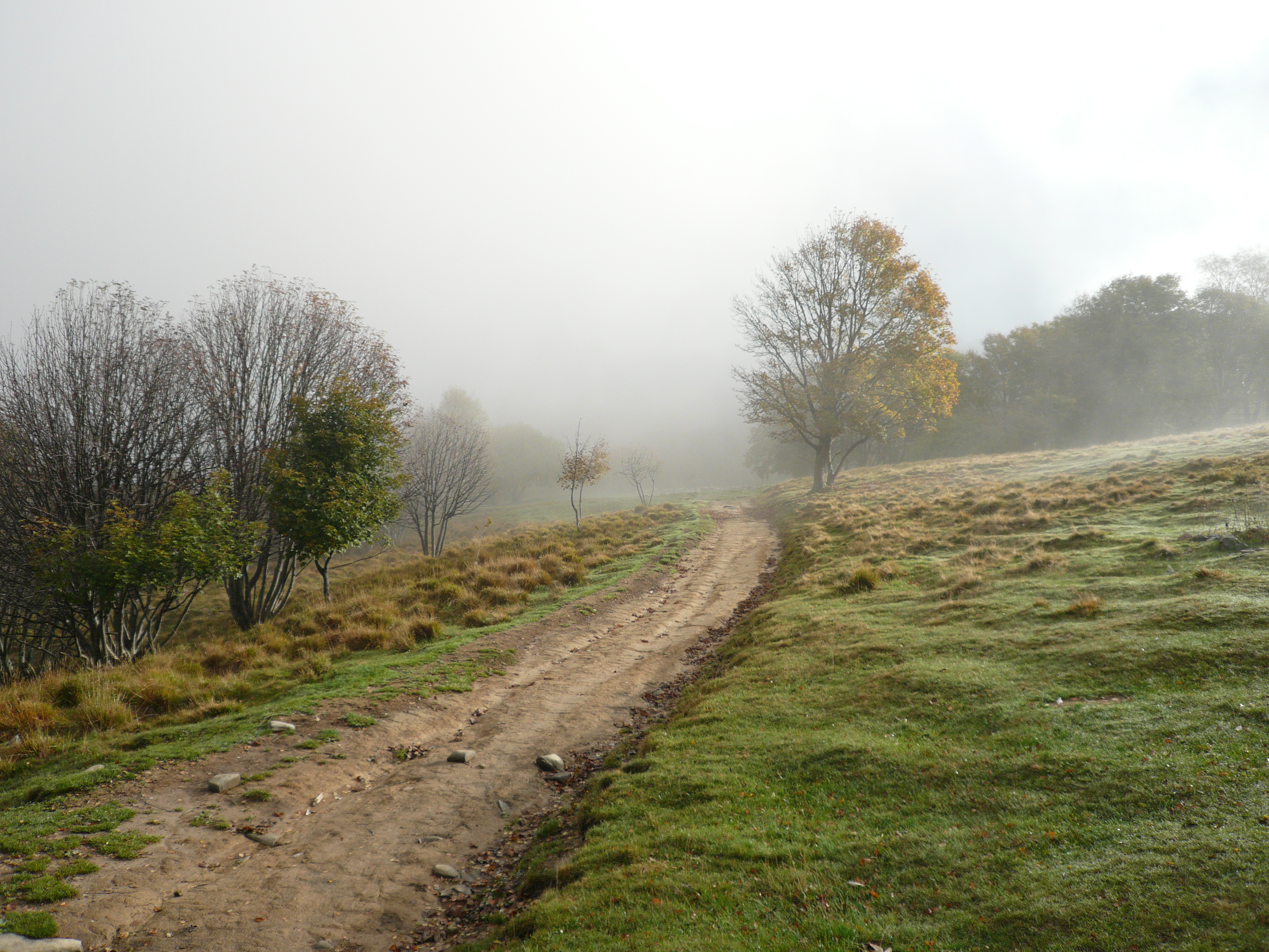 On the hiking path above Lago di Como